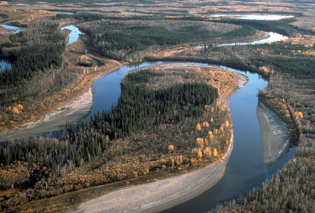 Yukon Flats River and Oxbows, Yukon Flats National Wildlife Refuge